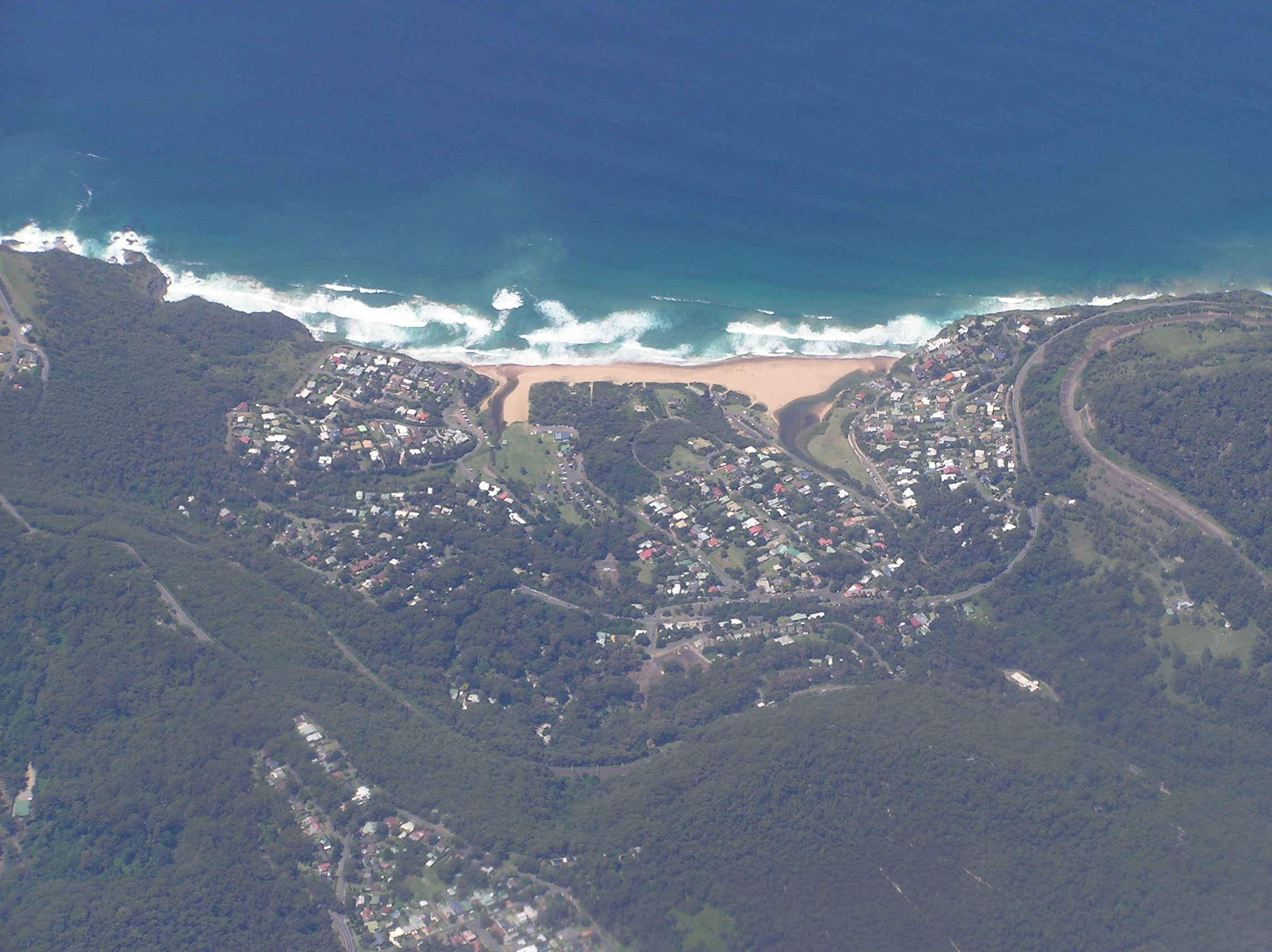 Aeriual photo of Stanwell park